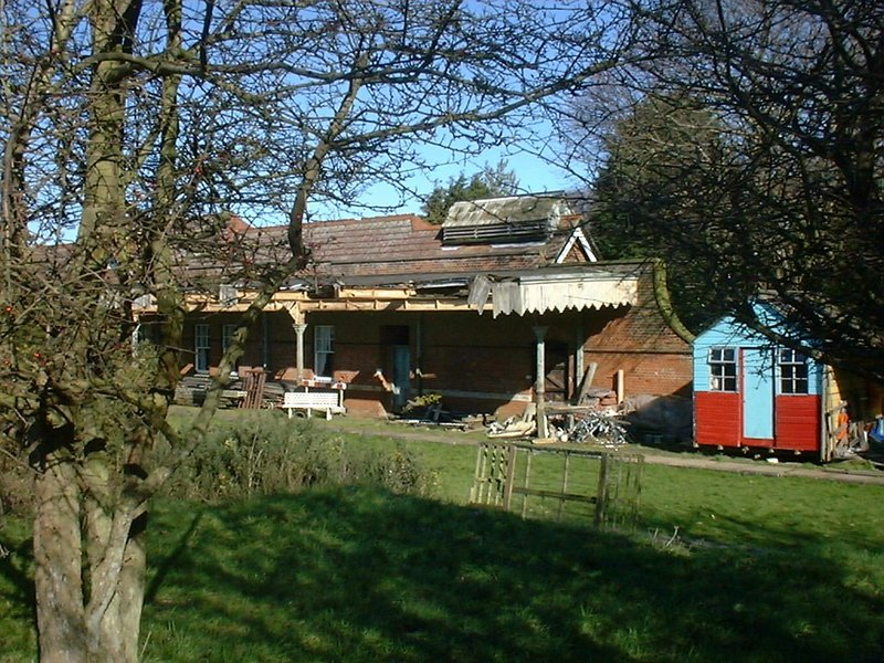 Current condition of Corton Railway Station, Corton, Suffolk. Last remaining station on the Lowestoft to Great Yarmouth line